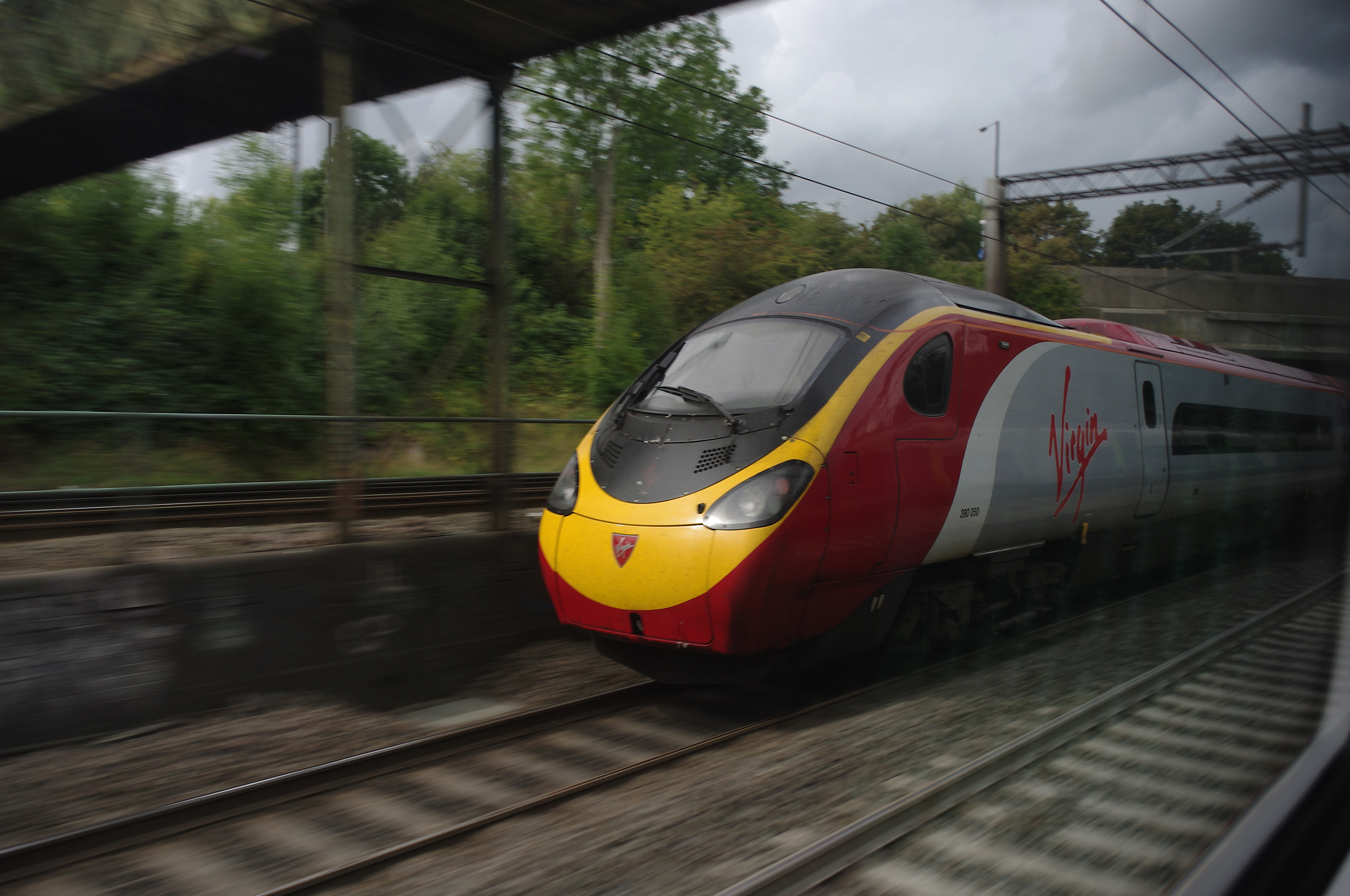 Virgin West Coast Pendolino EMU 390050 passes a northbound London Midland service on the West Coast Main Line somewhere near Headstone Lane.